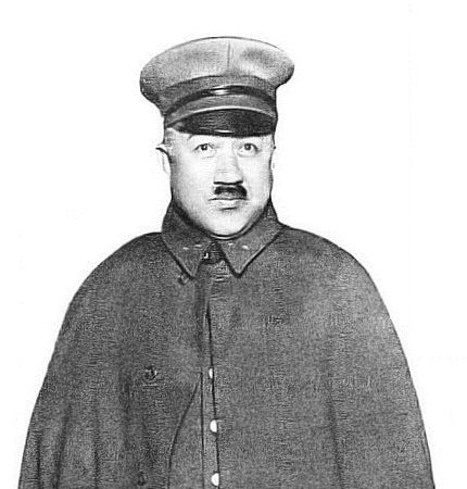 Kenji Doihara